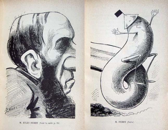 « M. Jules Ferry », in Les Chambres comiques n° 16, 18/1/1887. Caricature of Jules Ferry by Emile Cohl.